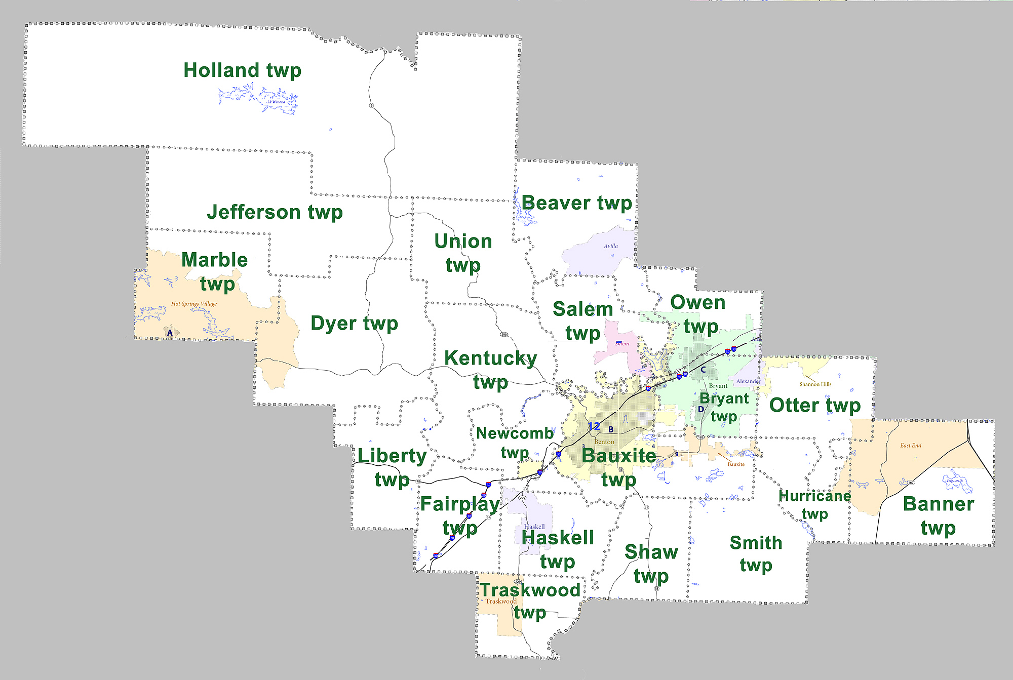 Large map showing townships in Saline County, Arkansas. Modified from US census map (for 2010 census) for Saline County, Arkansas